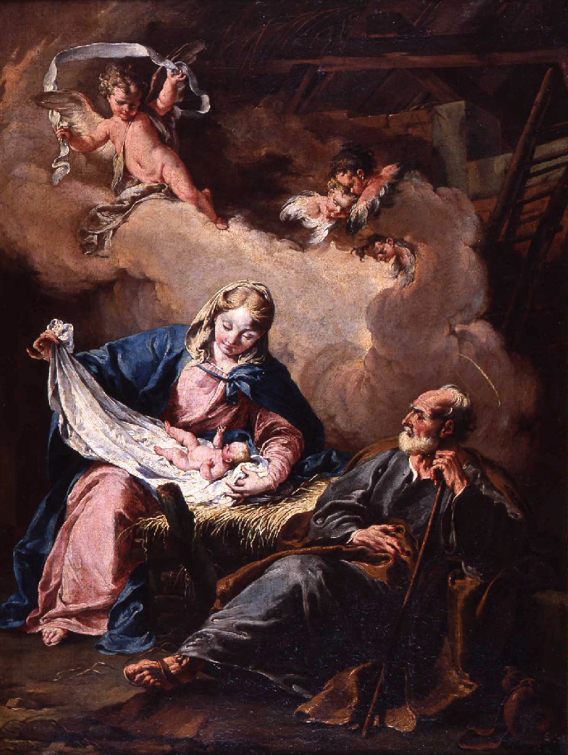 Nativity.